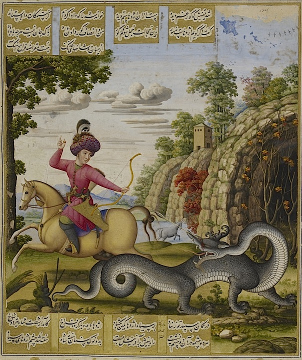 From Nizami's Haft paykar: Bahram Gur kills the dragon. Painting by Muhammad Zaman dated 1675/76, added perhaps when the manuscript was rebound at the court of Fath Ali Shah Qajar (r.1797-1834).